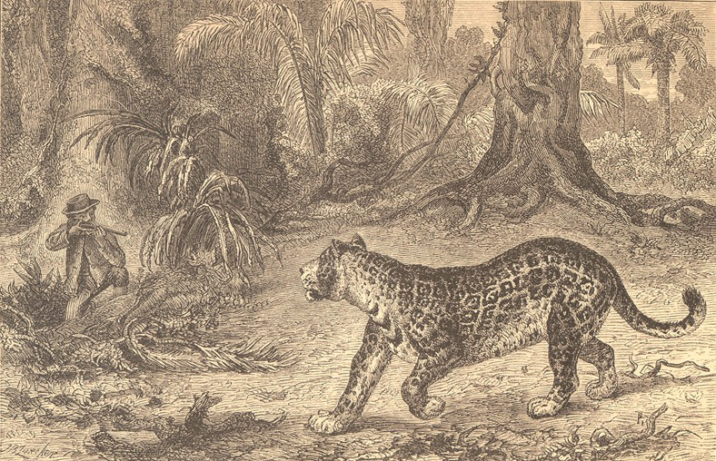 Frontispiece of Belt's book